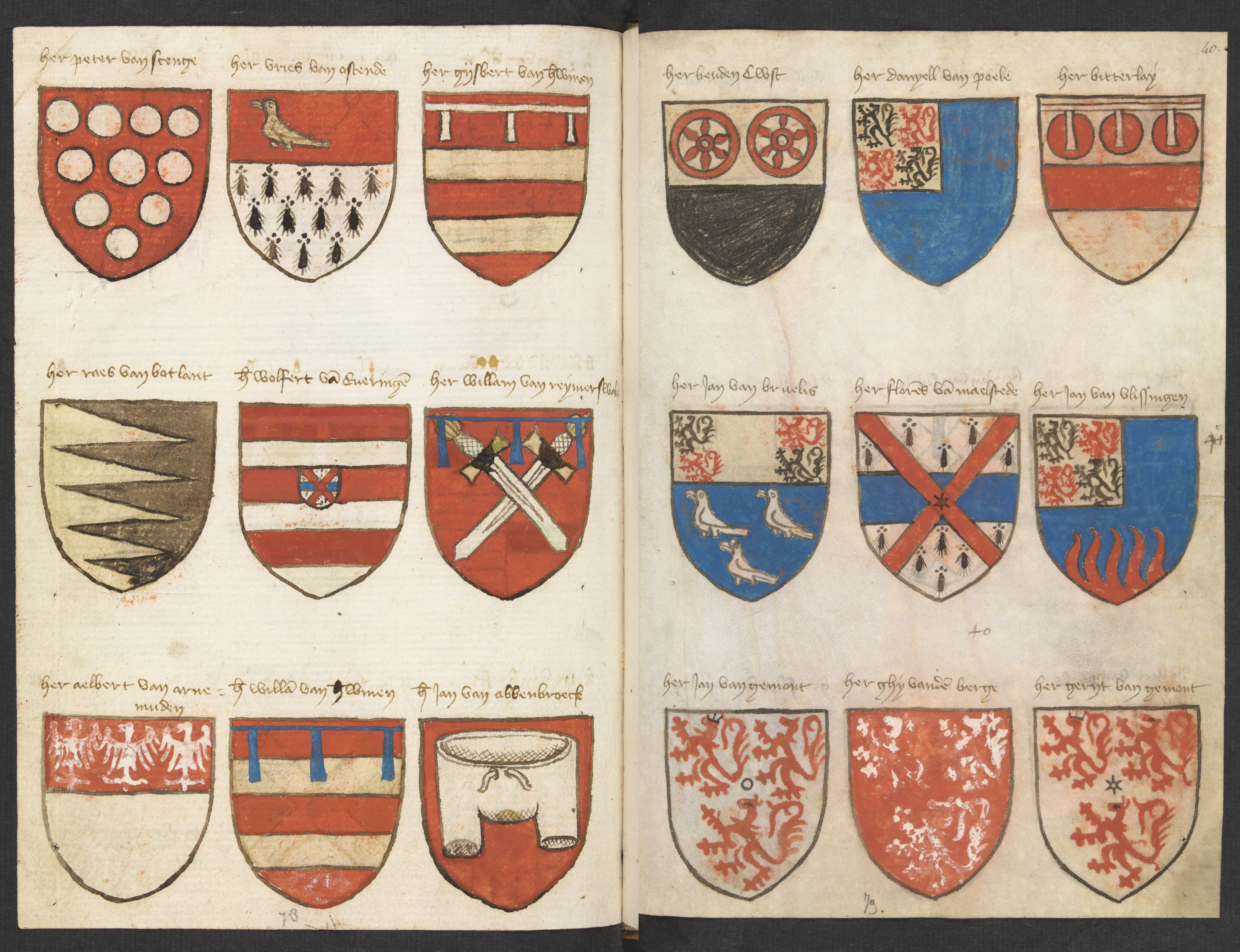 Lefthand side folio 039v; righthand side folio 040r from the Beyeren armorial / Wapenboek Beyeren